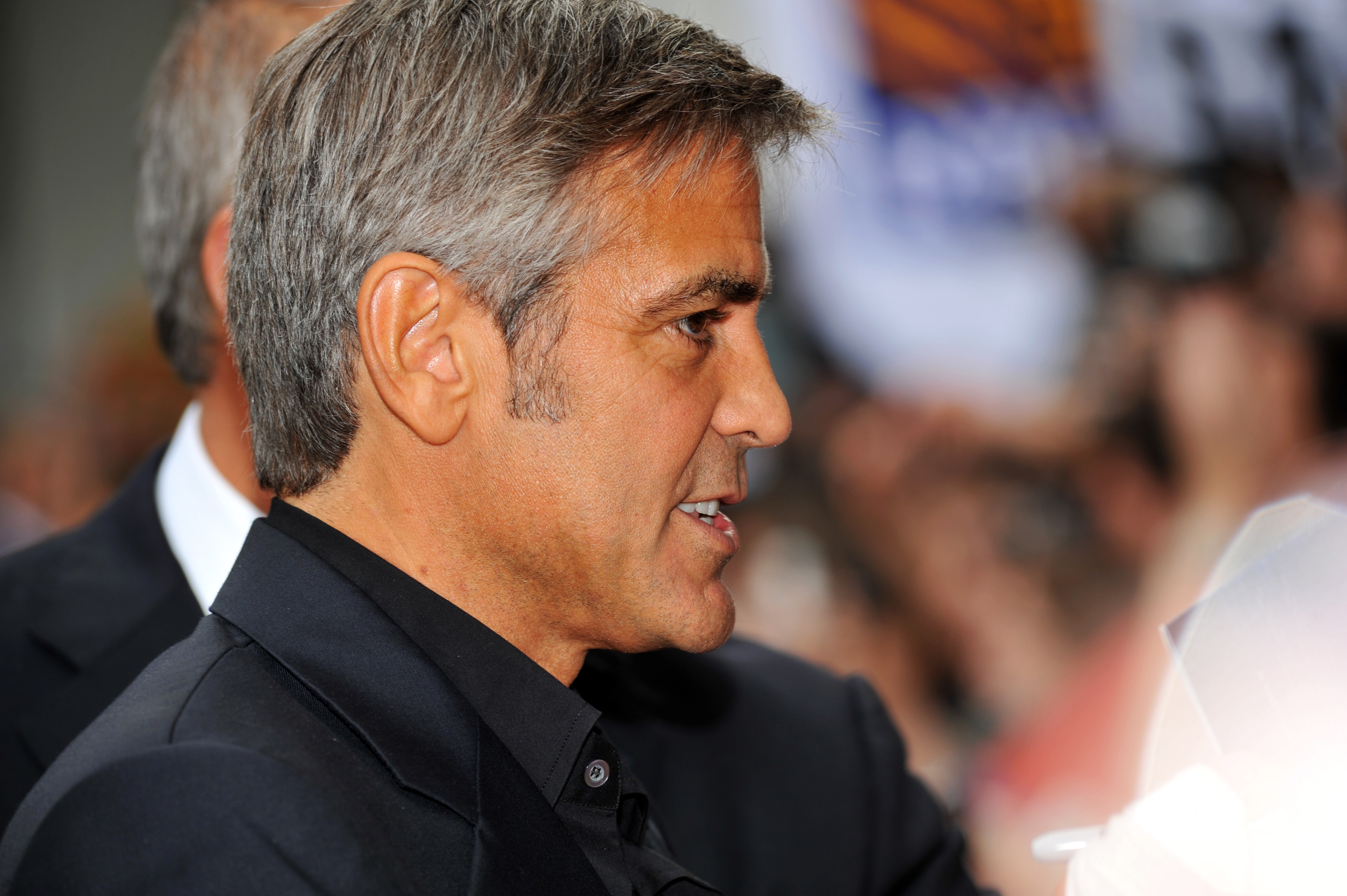 George Clooney @ Men Who Stare At Goats screening